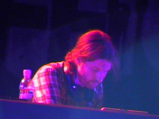 Aphex Twin in Turin, Italy.